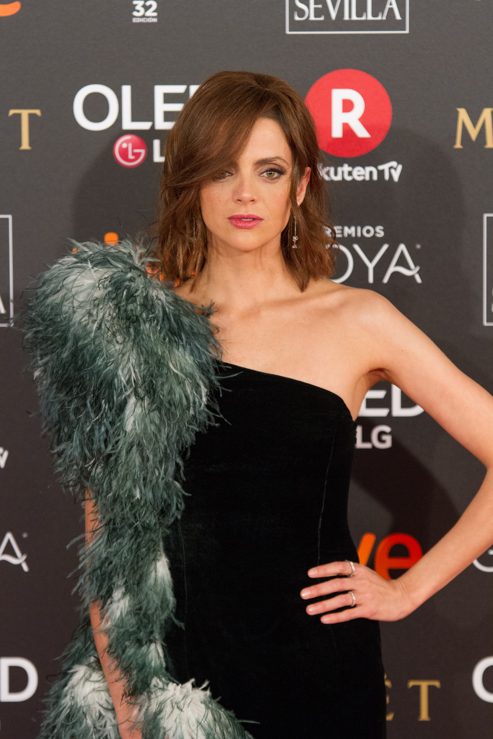 32nd Goya Awards, 2018.